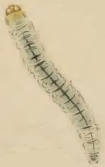 Stainton’s Natural History of the Tineina (1855–1873): Caloptilia alchimiella